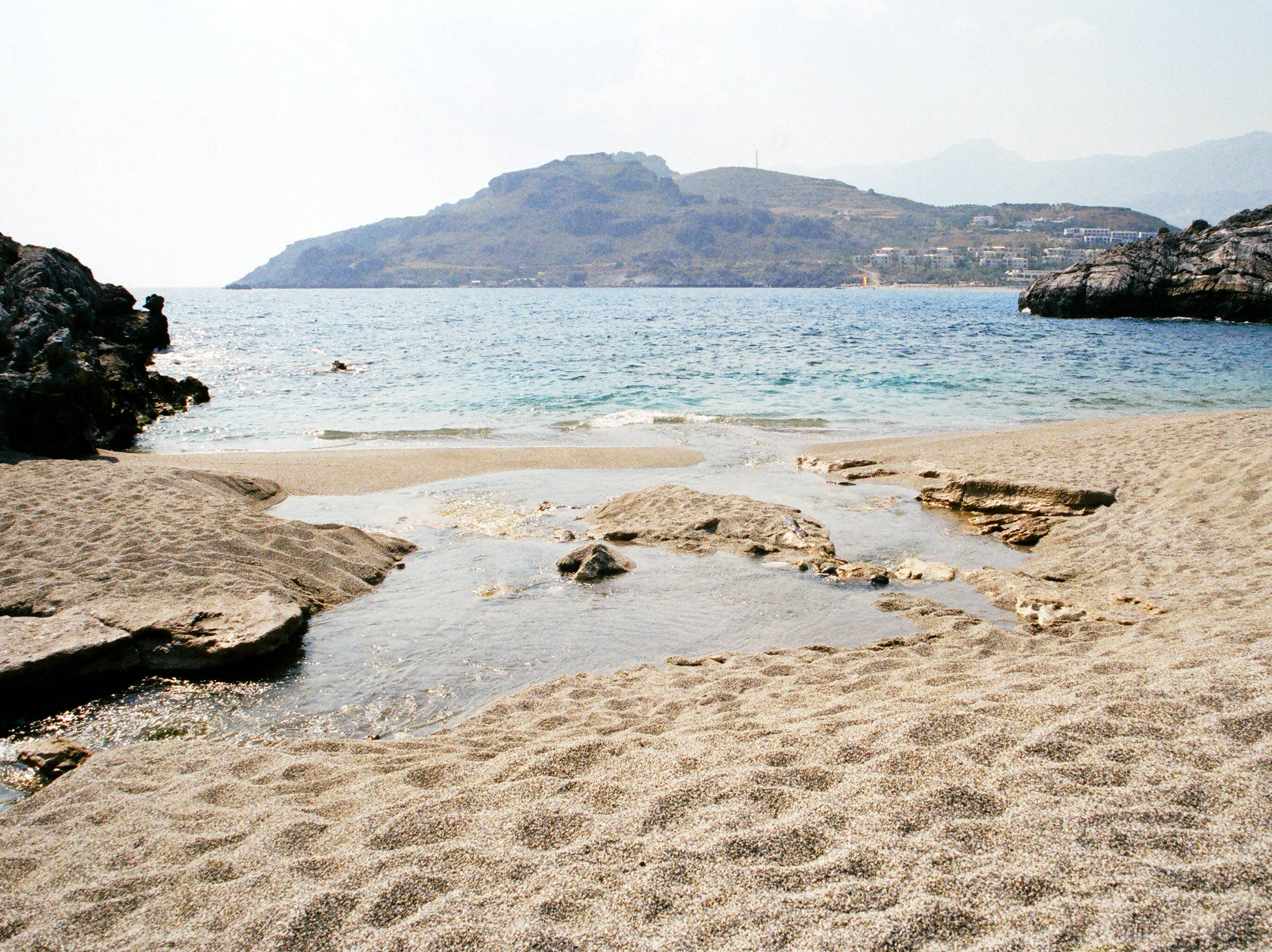 Ammoudi, Crete, Greece